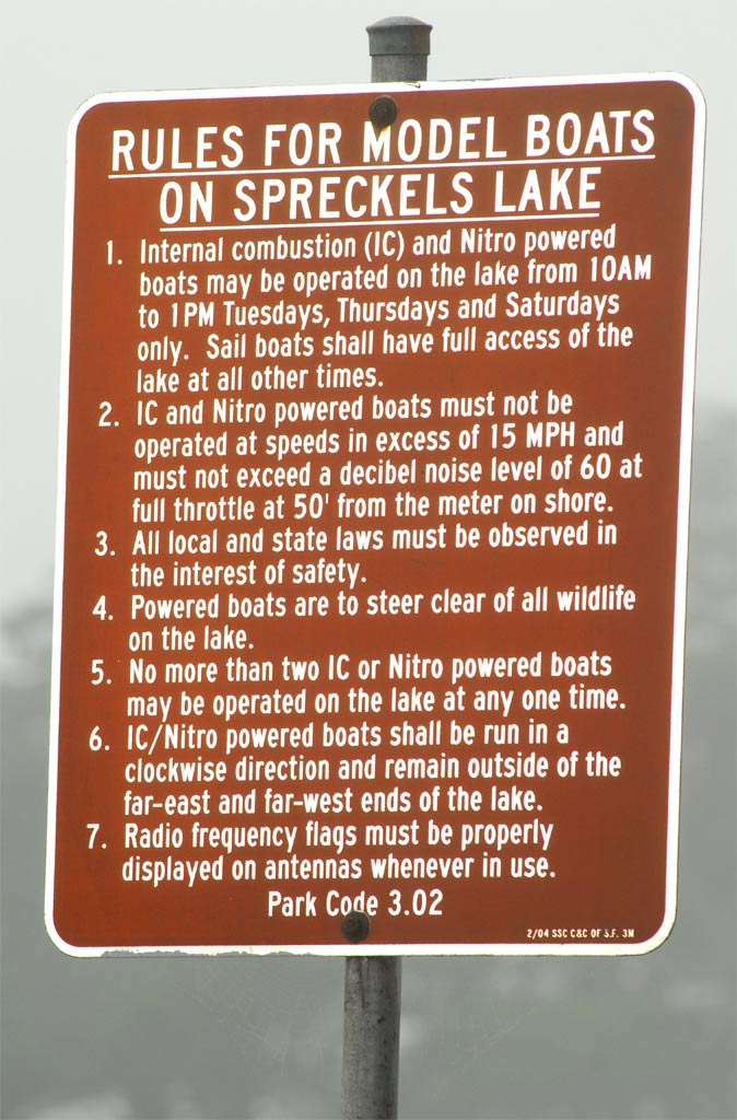 1990s era sign stating SF Rec and Parks rules for Spreckels Lake Model Yacht Facility